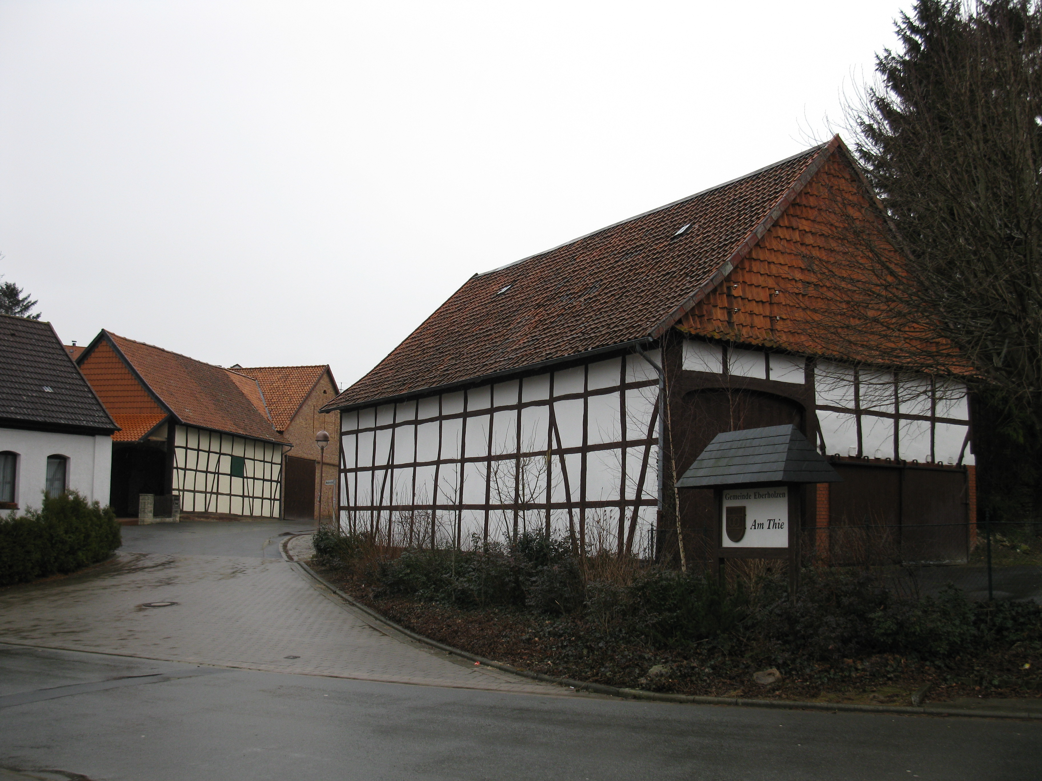 Half-timbered houses at Thie Place, Eberholzen, Germany.